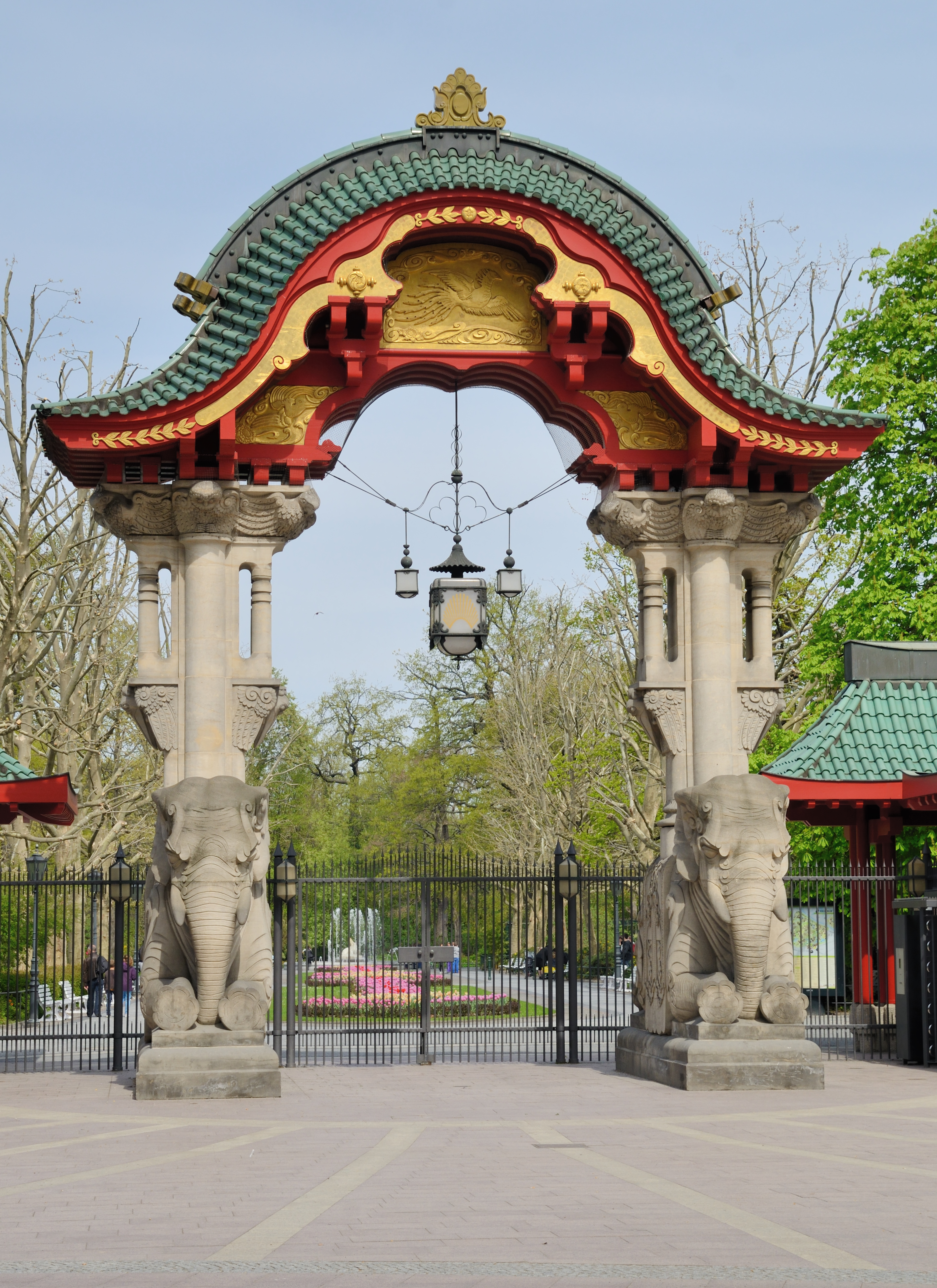 Berlin: elephant gate at Berlin Zoo